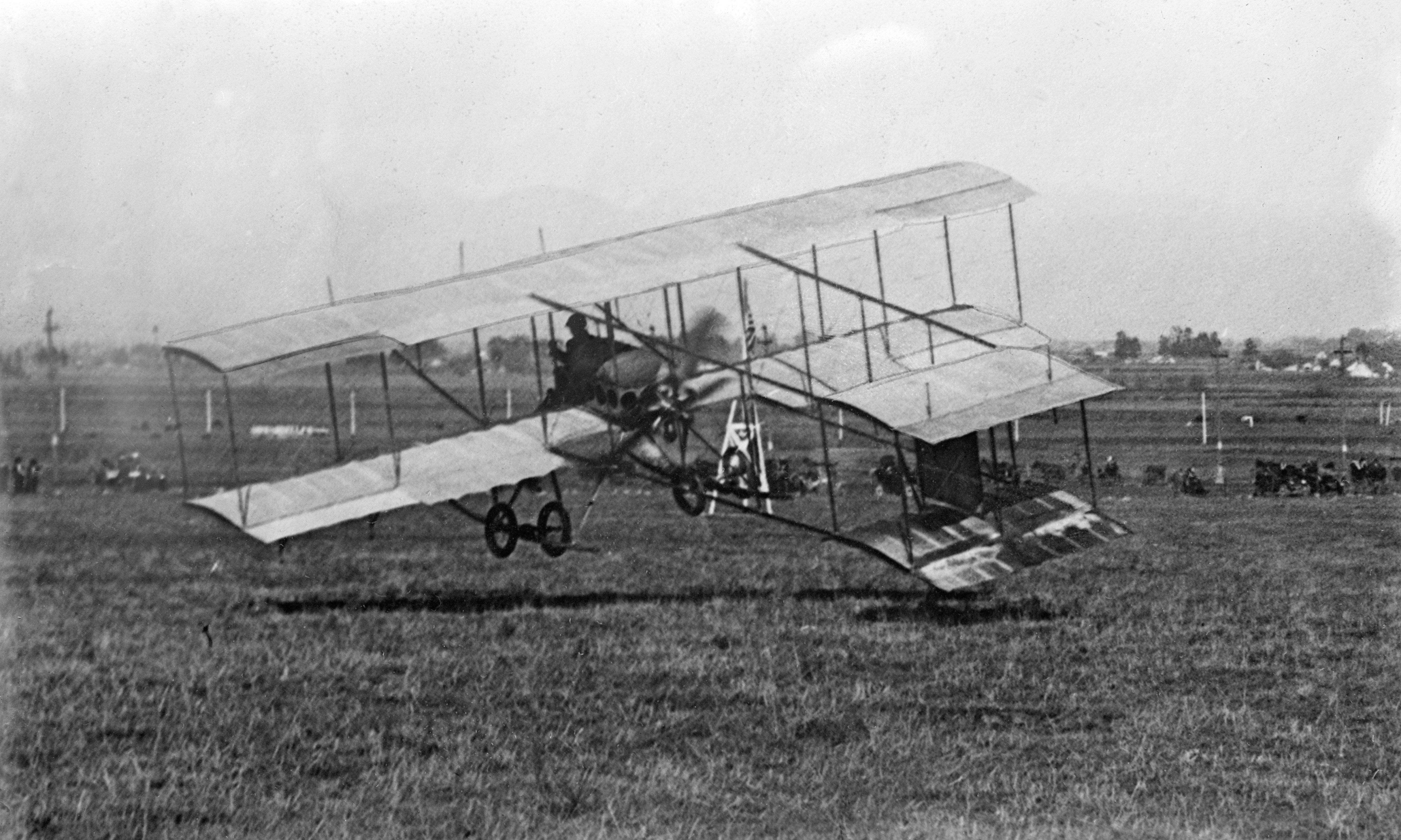 Paulhan aeroplane taking off, Los Angeles, Calif. Farman III aeroplane flown by Louis Paulhan at the Dominguez International Air Meet, Los Angeles, January 10-20, 1910. NOTES:Title from unverified data provided by the Bain News Service on the negatives or caption cards.